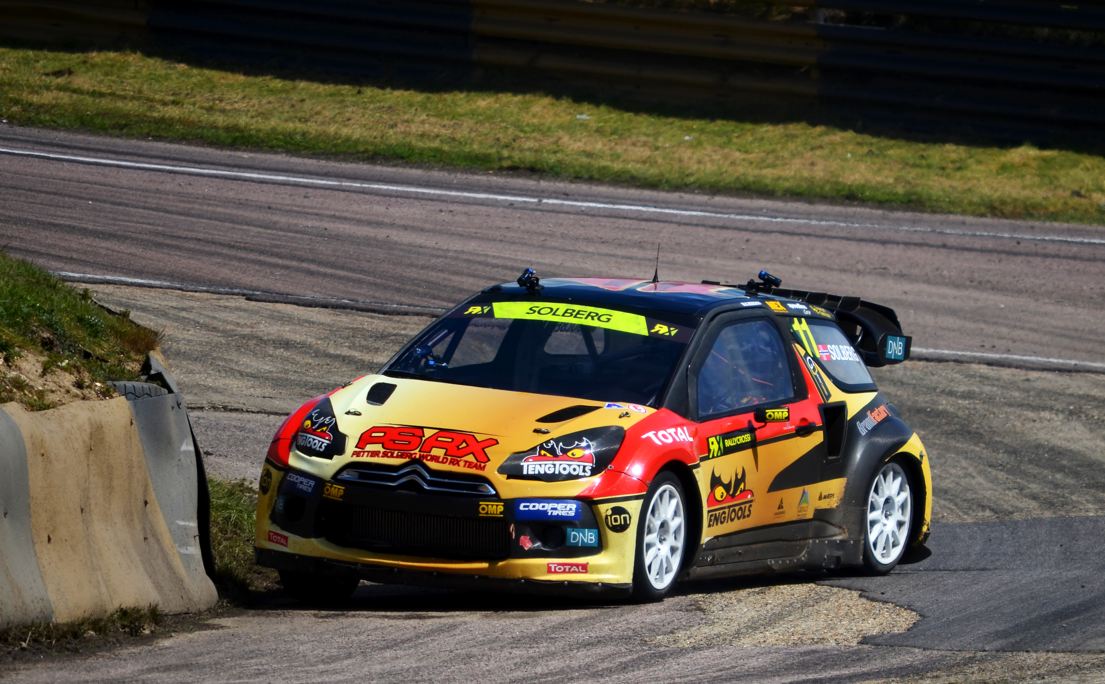 Petter Solberg placing the car perfectly through Paddock Bend at Lydden Hill during a heat race of round 2 of the 2014 FIA World Rallycross Championship.